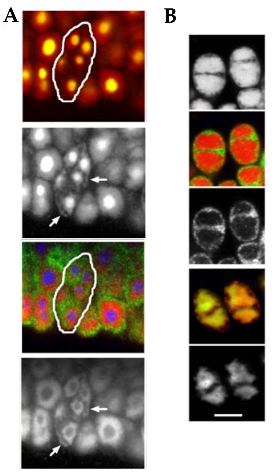 Nuclear architecture of mouse cone cells and inverted nucleus from rabbit rod cell